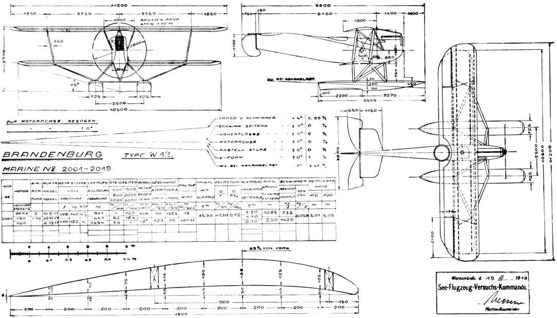 Hansa-Brandenburg W.12 German World War 1 reconnaissance seaplane